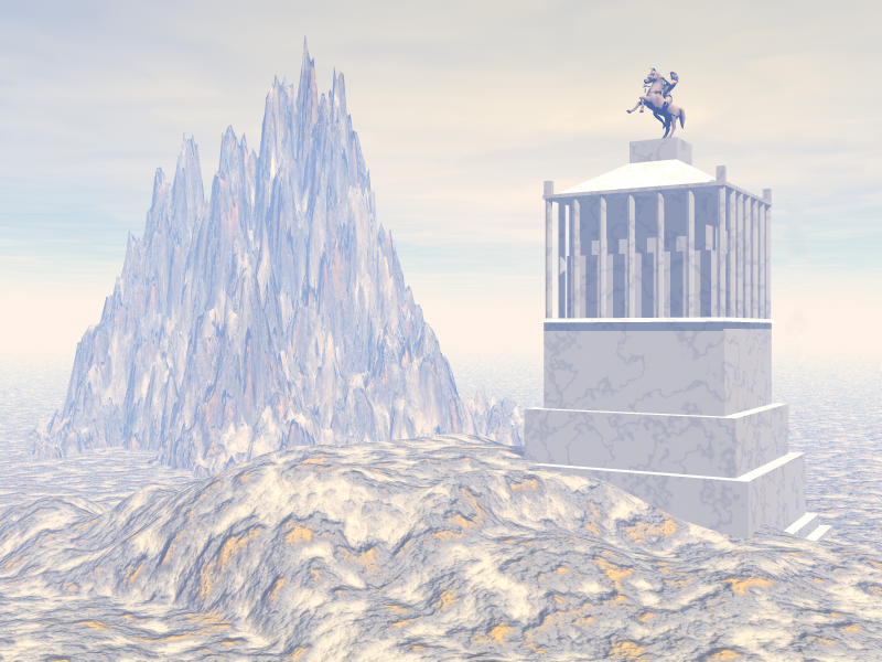 The Mausoleum of Maussollos, or Mausoleum of Halicarnassus was a tomb built between 353–350 BC at Halicarnassus (present Bodrum, Turkey), for Mausolus (in Greek, Μαύσωλος), a provincial king in the Persian Empire, and Artemisia II of Caria, his wife and sister.